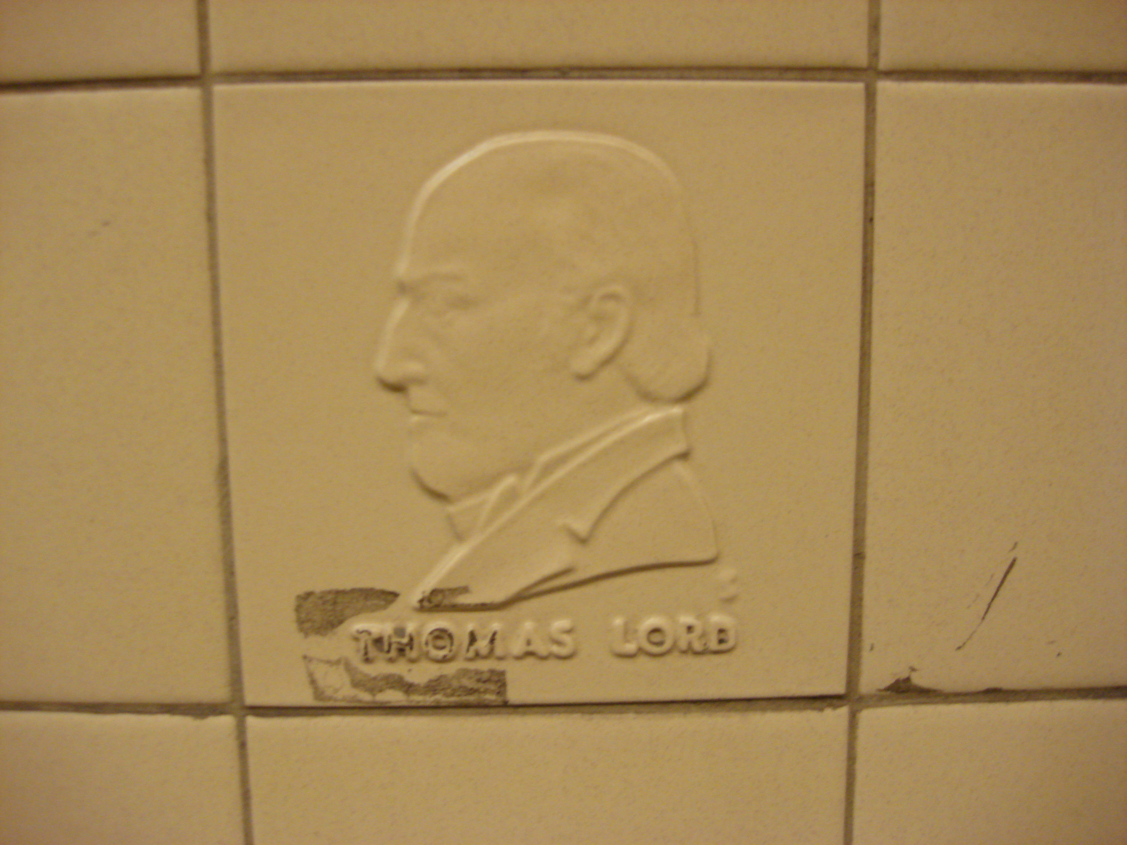 A tile decorated with a relif image of Thomas Lord on the Northbound platform at St Johns Wood tube station